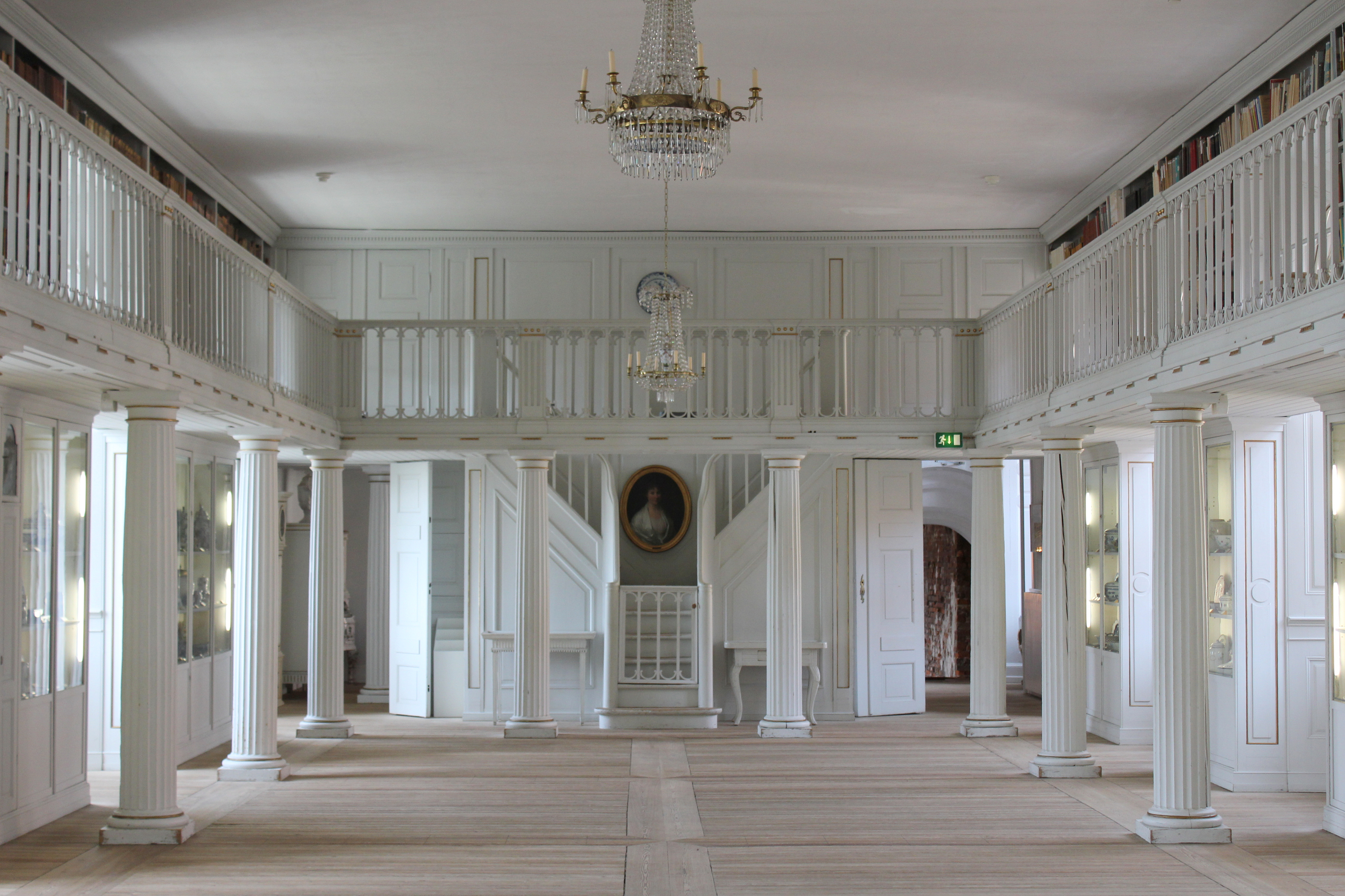 Koldinghus is a royal palace and a castle,built in the 1200s, it has played a significant role in Denmark's history: as a border guard, as a royal residence and the castle housed the local state administration. Throughout the Middle Ages, the location ment that Koldinghus, was one of the largest and most important castles.The night between 29th and 30 March 1808 a giant fire broke out. On the second day, a part of the Great Tower crashed down and Koldinghus was left as a ruin. In 1536, King Christian 3 (1536-59) became king and with his wife Dorothea, they started a complete change of Koldinghus. All medieval defense devices were removed and Koldinghus was rebuildt as a civil Castle, the residence of the king and his family in the western part of the kingdom. Over the last 100 years the ruin has been restored several times and is now museum of cultural history. In the early 1930s, the Great Tower to fall apart, but they managed to raise money for rebuilding the tower. It was not until the 1970s that the final, complete restoration of Koldinghus was begun. The restoration project was headed by the architects Inger and Johannes Exner.